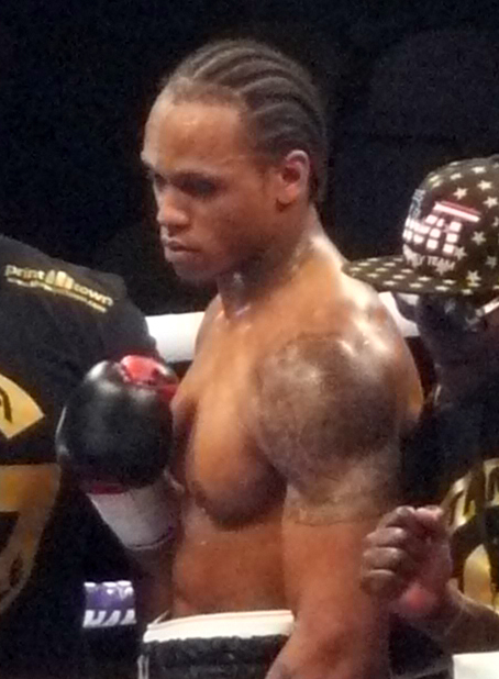 Professional boxer Anthony Yarde at the Copper Box Arena in London.